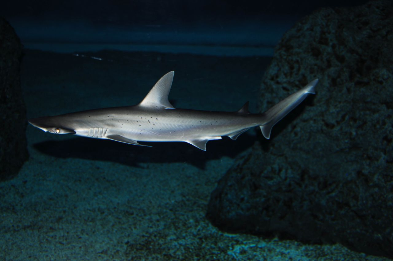 Bonnethead shark (Sphyrna tiburo) at the Indianapolis Zoo.